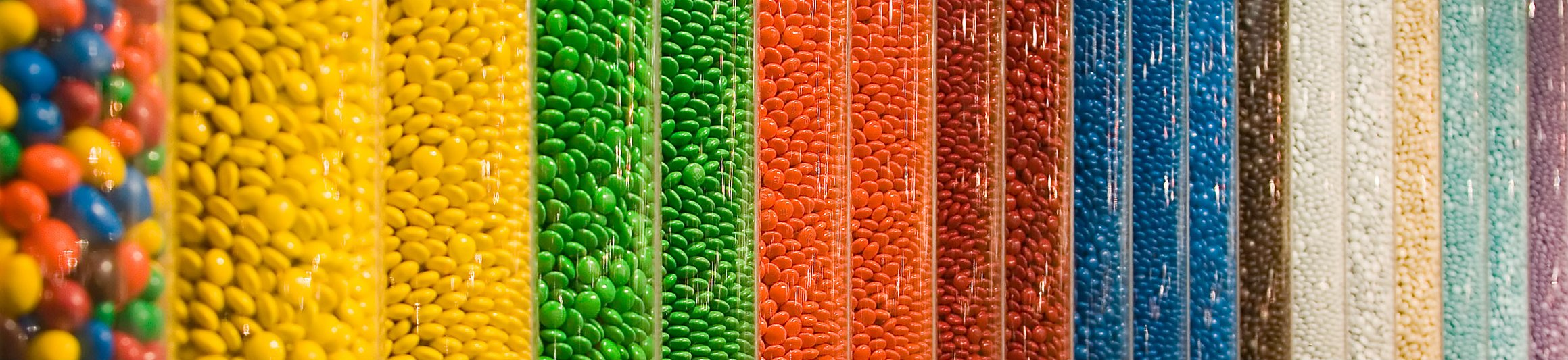 Bottles of sweets in a row by romainguy taken in Las Vegas, Nevada